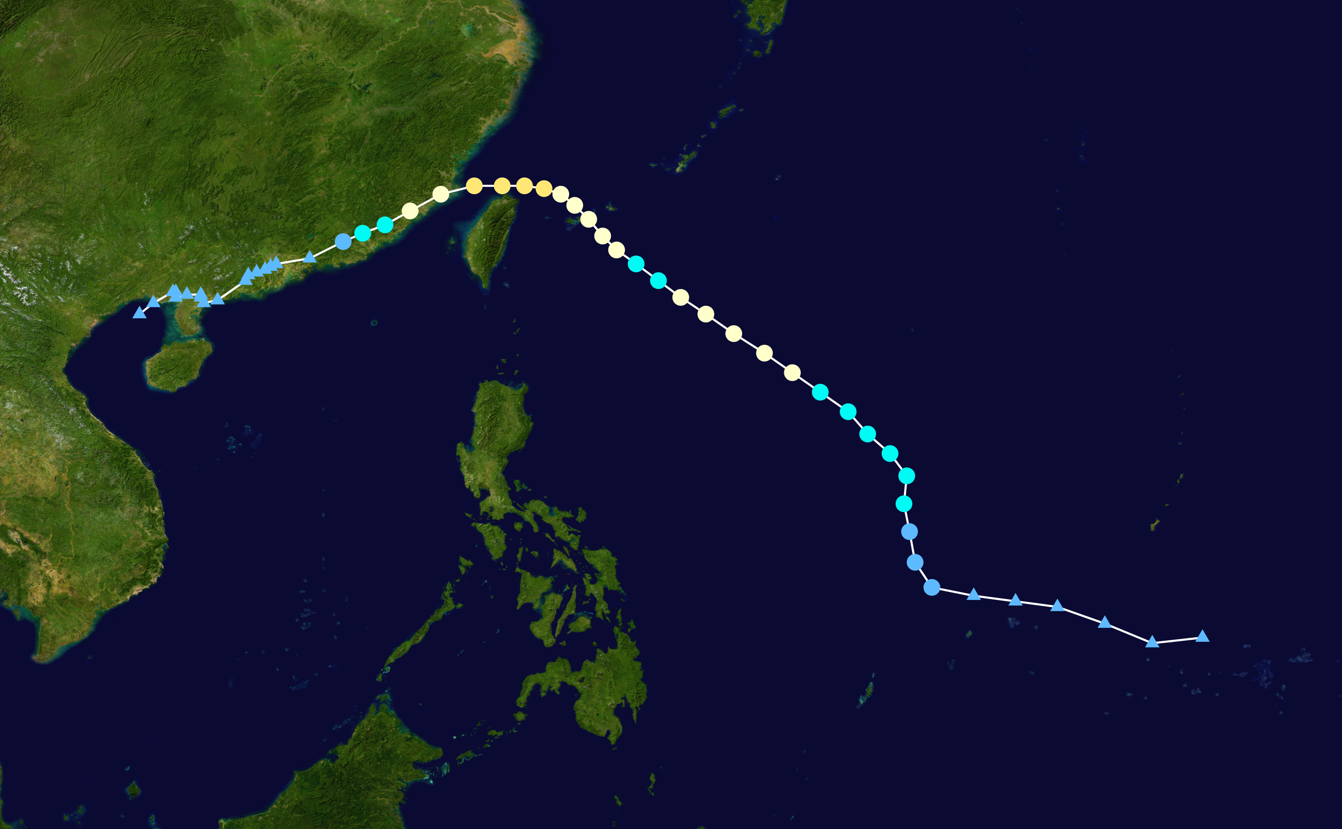 Typhoon Aere (2004) track. Uses the color scheme from the Saffir-Simpson Hurricane Scale.